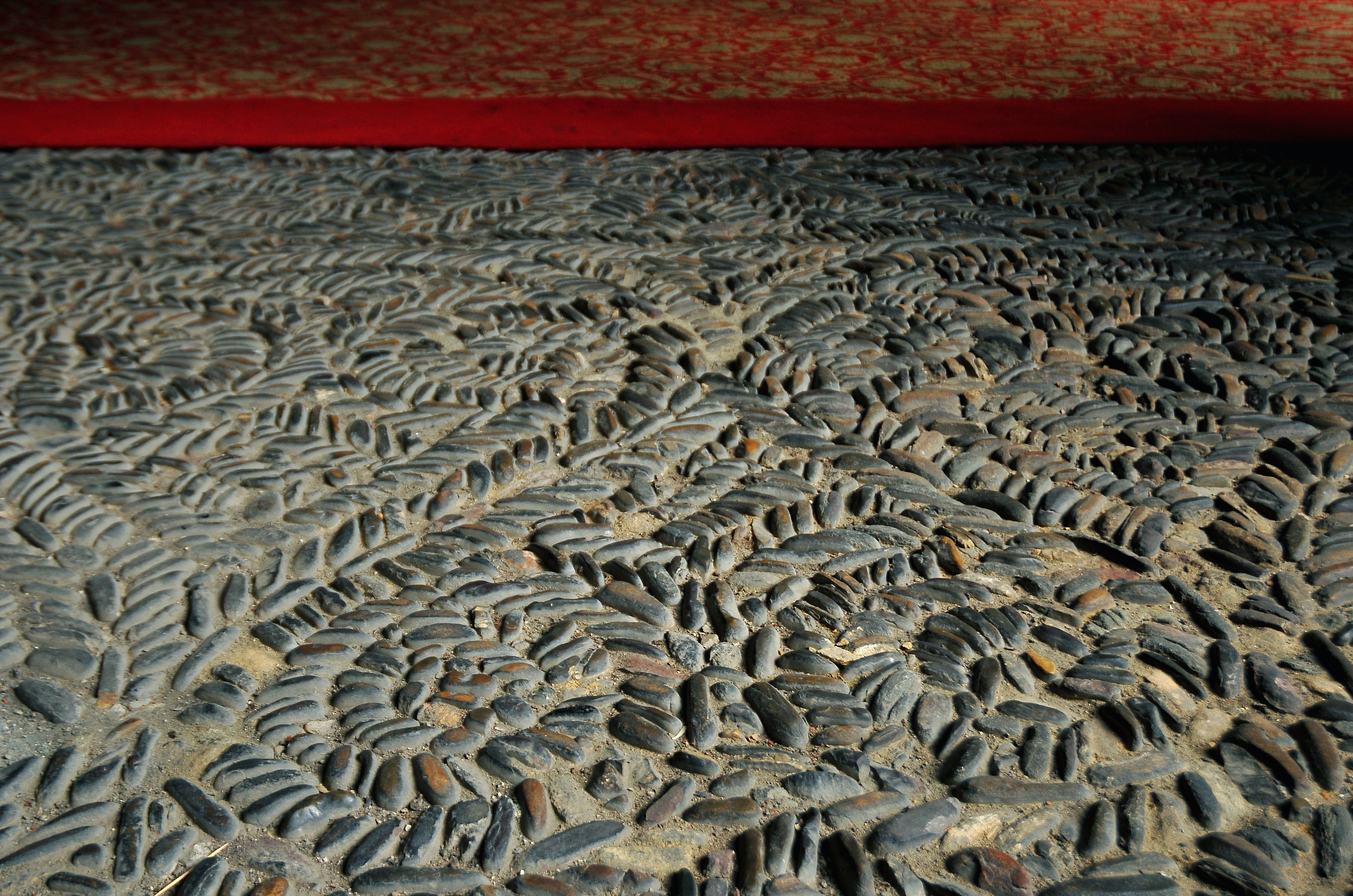 Detail of lower cloister pavement; San Marcos Convent. León, Castille and León, Spain